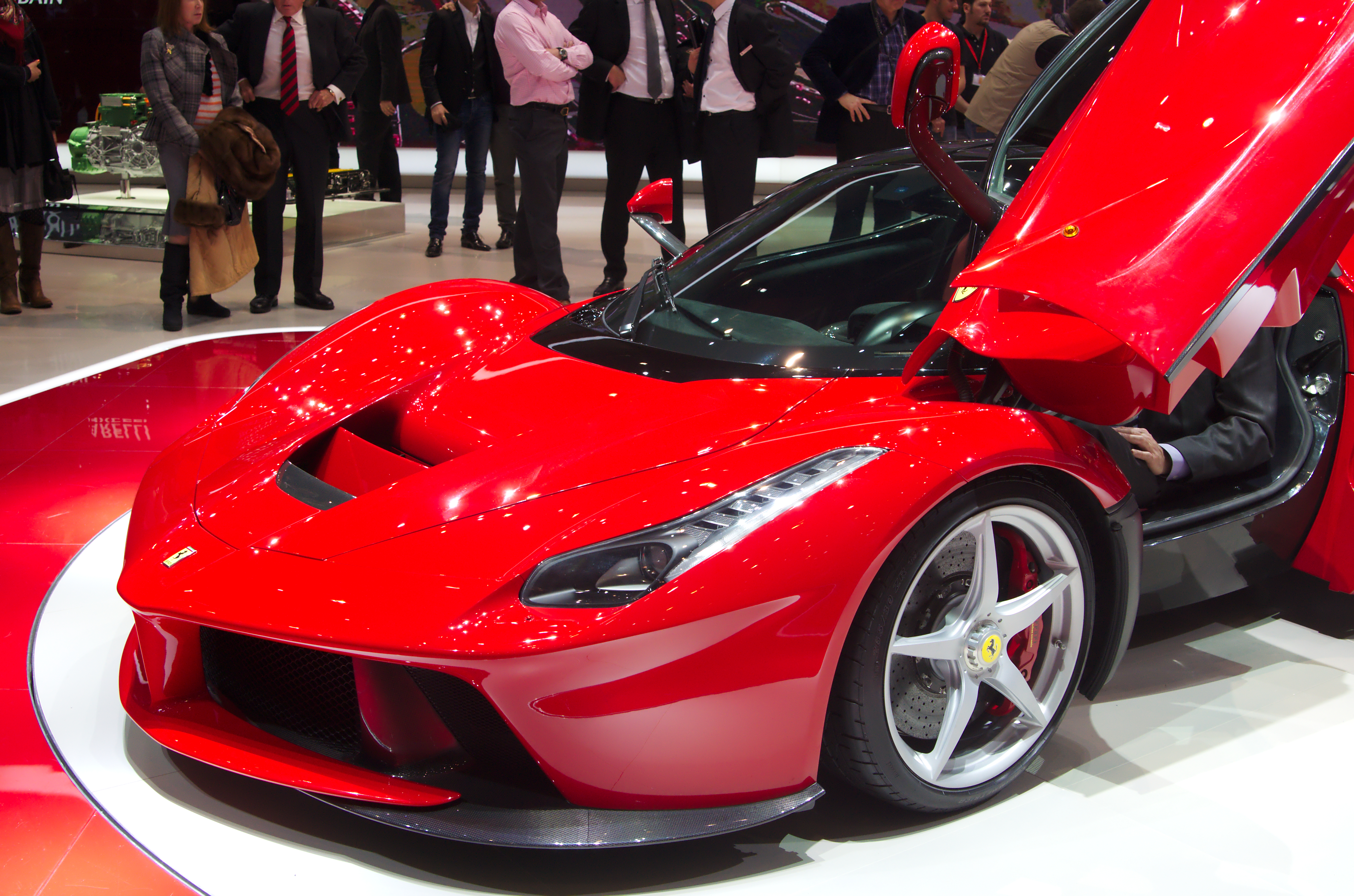 Geneva MotorShow 2013 - Ferrari LaFerrari front right view